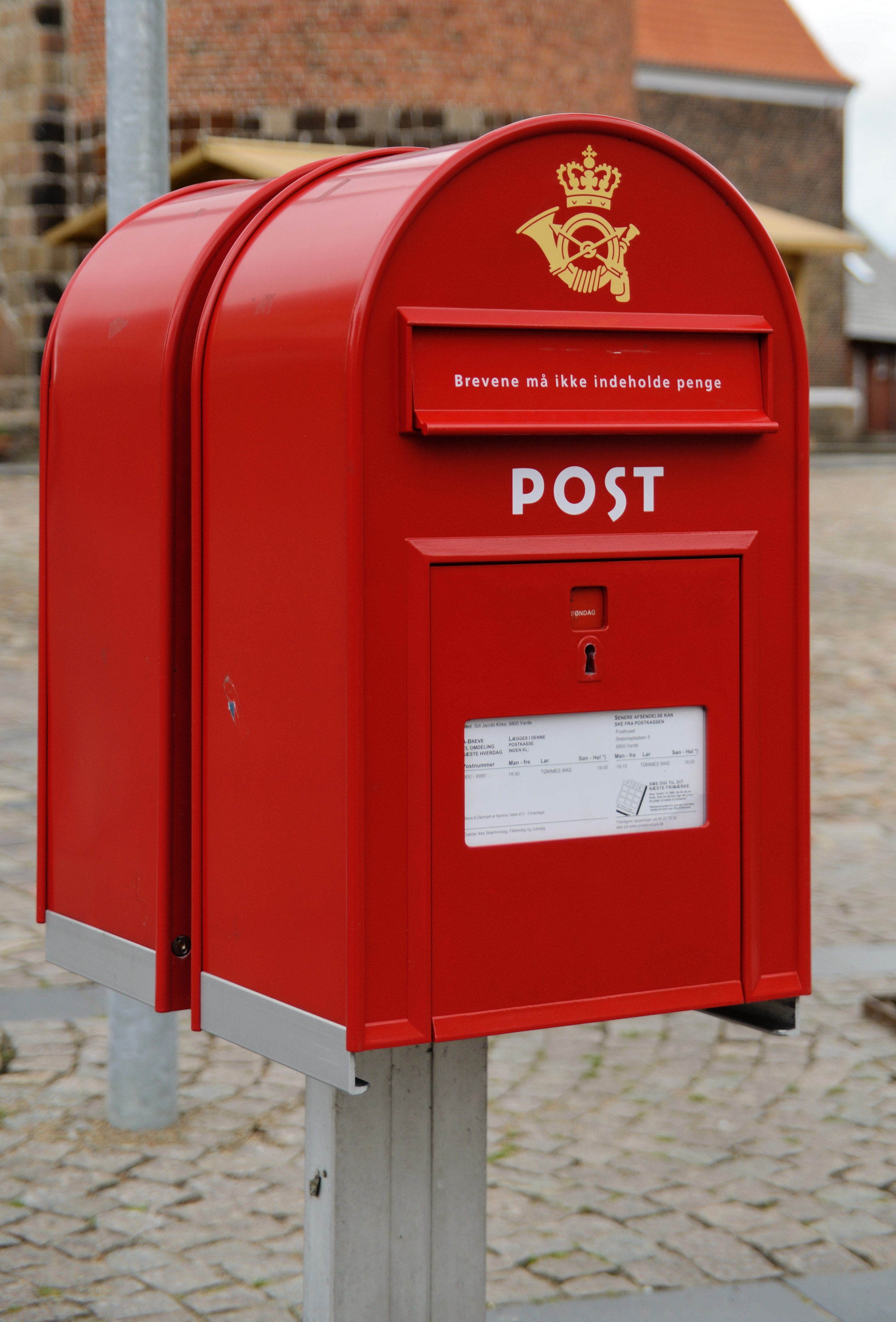 Varde: post box